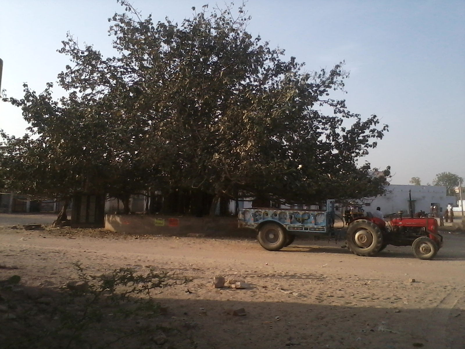 Great Banyan Tree(BARGAT TREE) of VILLAGE SUNARI(NAGAURE)